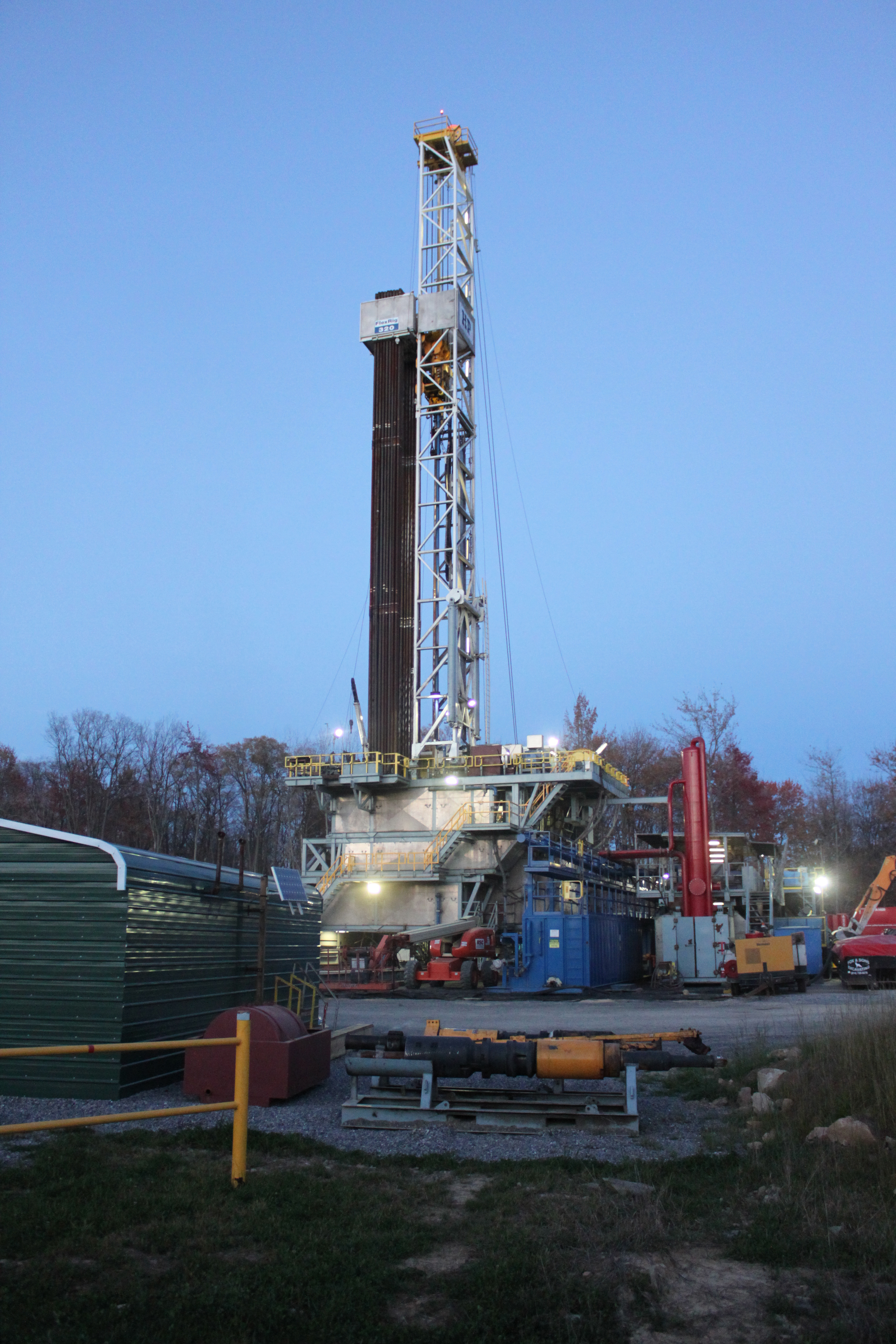 Drill rig , drilling a Marcellus Shale well in the State Game Lands. Located in Roulette, Pennsylvania